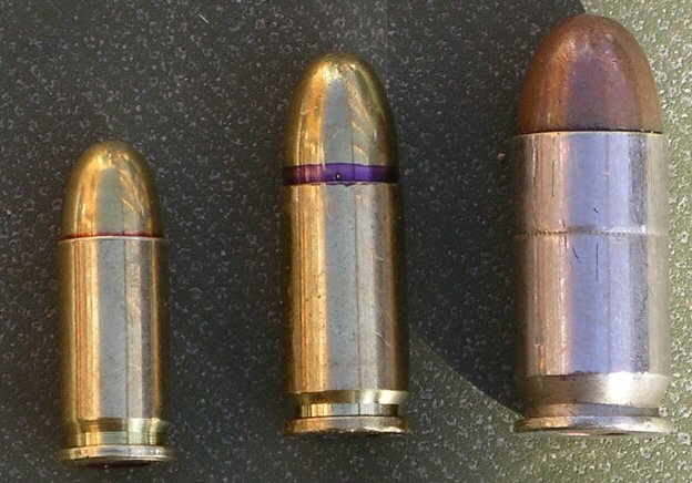 Cartridges; 7.65mm, en:9 mm Luger Parabellum and en:.45 ACP. Photograph February 3, en:2004 by Lasse Jensen.